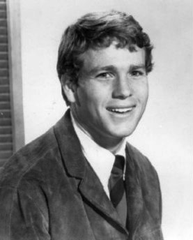 Photo of Ryan O'Neal as Rodney Harrington from the television program Peyton Place.